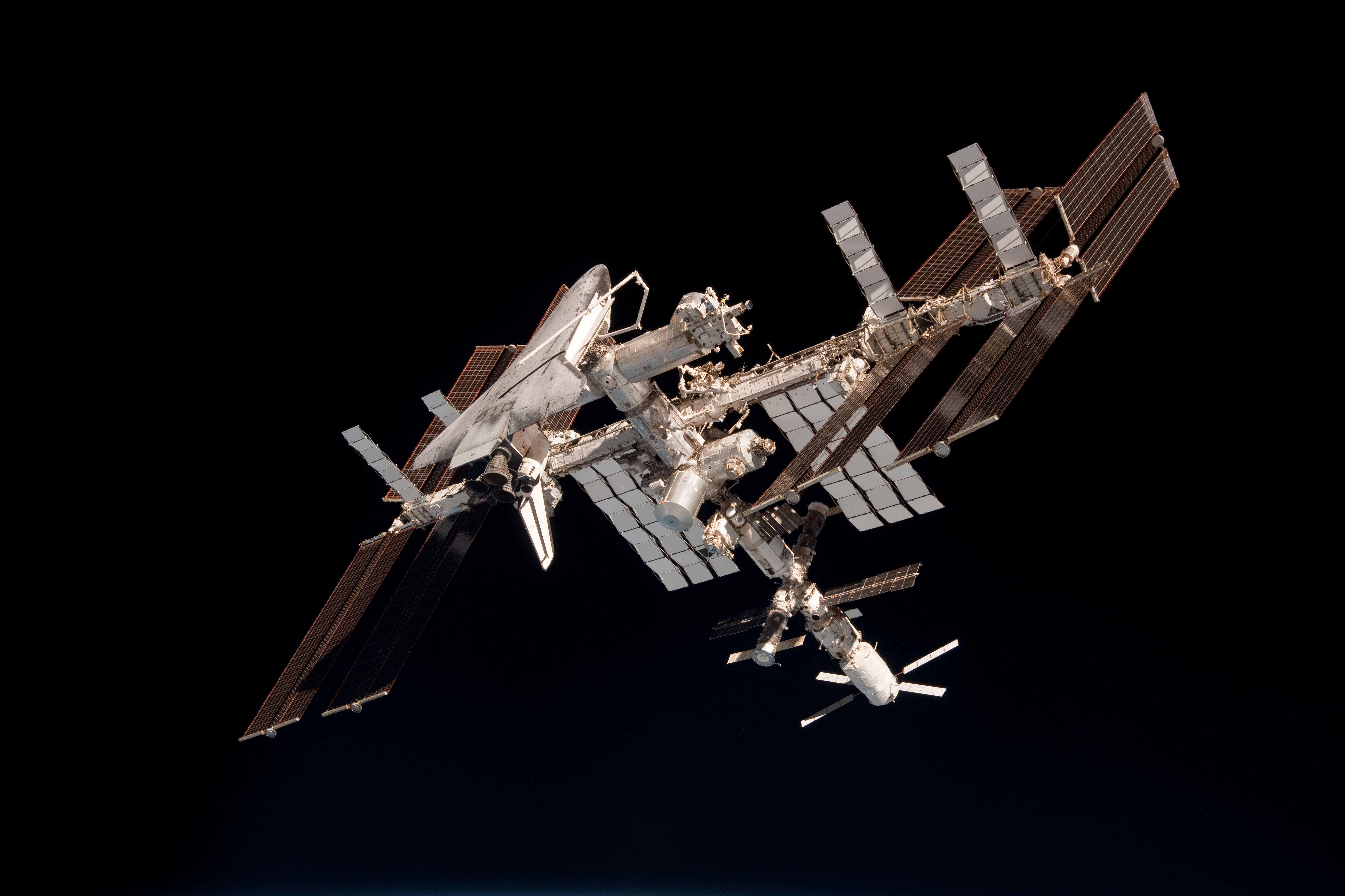 This image of the International Space Station and the docked space shuttle Endeavour, flying at an altitude of approximately 220 miles, was taken by Expedition 27 crew member Paolo Nespoli from the Soyuz TMA-20 following its undocking on May 23, 2011 (USA time). The pictures are the first taken of a shuttle docked to the International Space Station from the perspective of a Russian Soyuz spacecraft. Onboard the Soyuz were Russian cosmonaut and Expedition 27 commander Dmitry Kondratyev; Nespoli, a European Space Agency astronaut; and NASA astronaut Cady Coleman. Coleman and Nespoli were both flight engineers. The three landed in Kazakhstan later that day, completing 159 days in space.